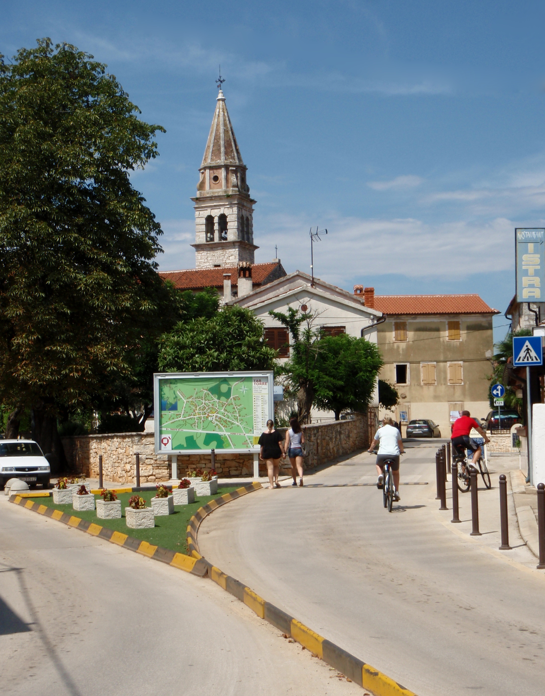 Tar in Tar-Vabriga, Istria, Croatia with view on St. Martin church in Tar.